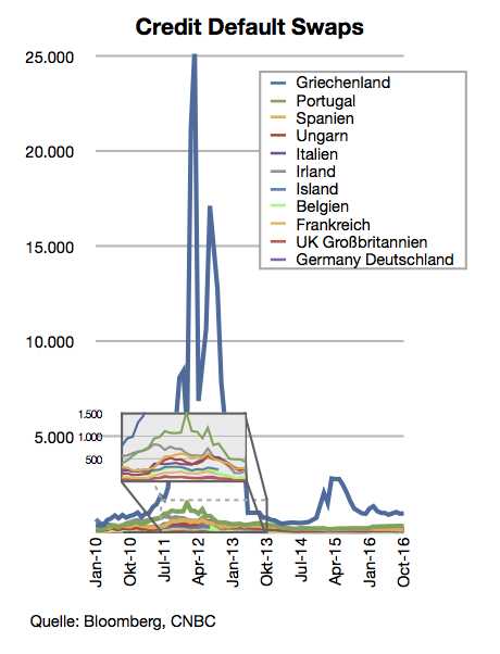 Monthly sovereign credit default swap prices (5Y quotes) of selected European countries since January 2010 (price at end of each month). The left axis is in basis points; a level of 1,000 means it costs $1 million to protect $10 million of debt for five years.Data: CNBC (no historical data) If you know of another source with historical CDS quotes, please add it here, thanx.Original data sources: Greece, Portugal, Ireland, Hungary, Italy, Spain, Belgium, France, Germany, and the UK (not available anymore)